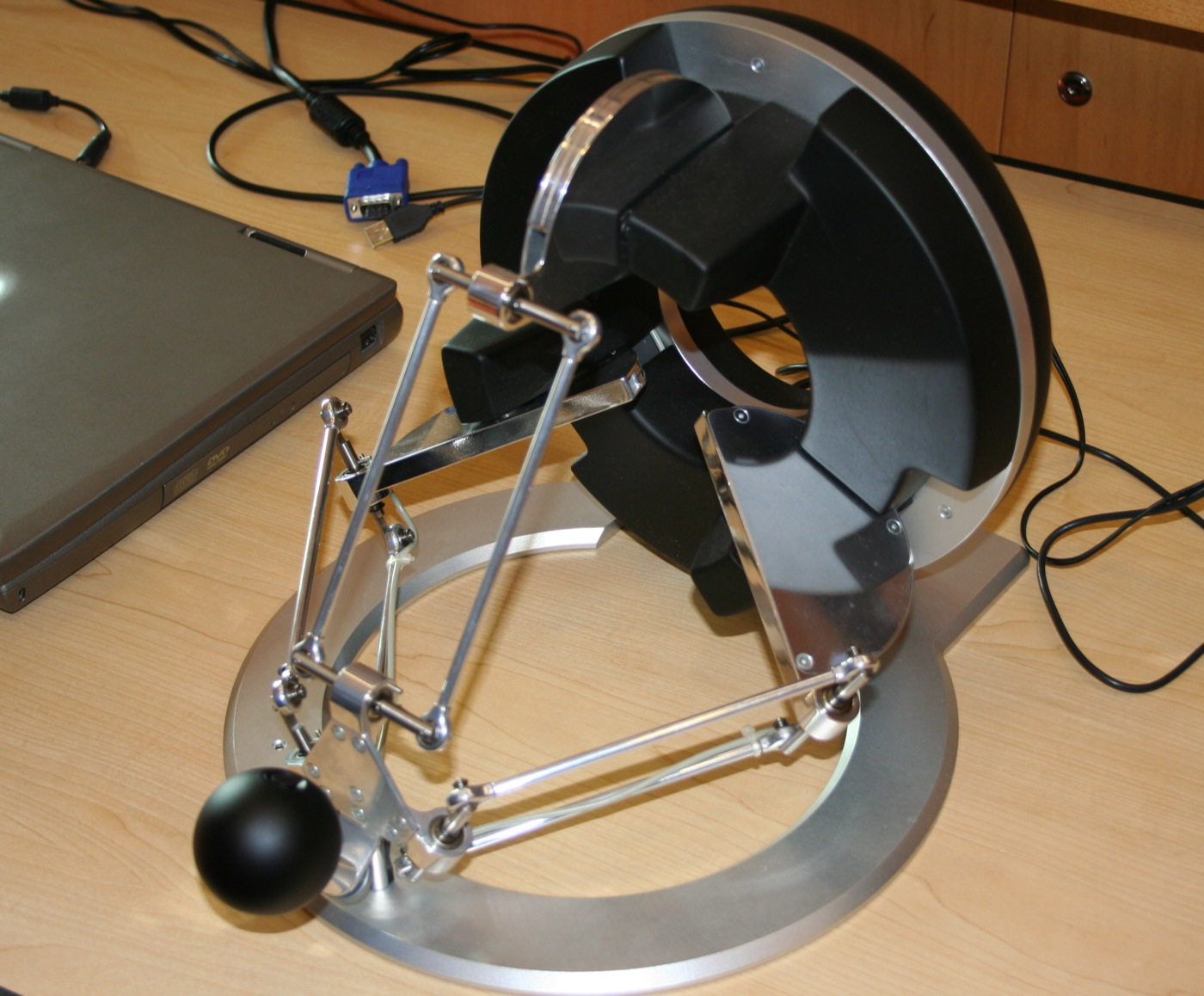 EDUCAUSE Immersive Learning Environments focus session, Raleigh, NC, March 2007